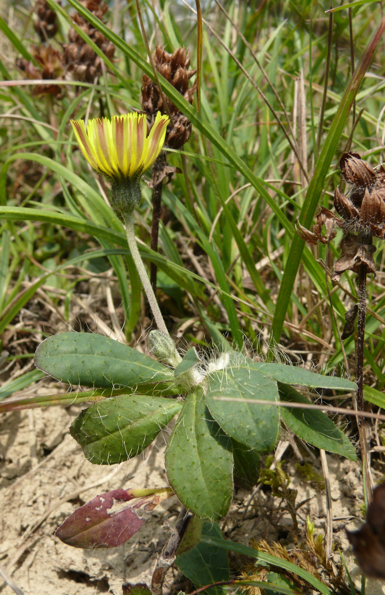 Hieracium pliosella, Hohenlohe, Germany